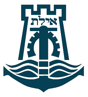 Coat of arms of Eilat